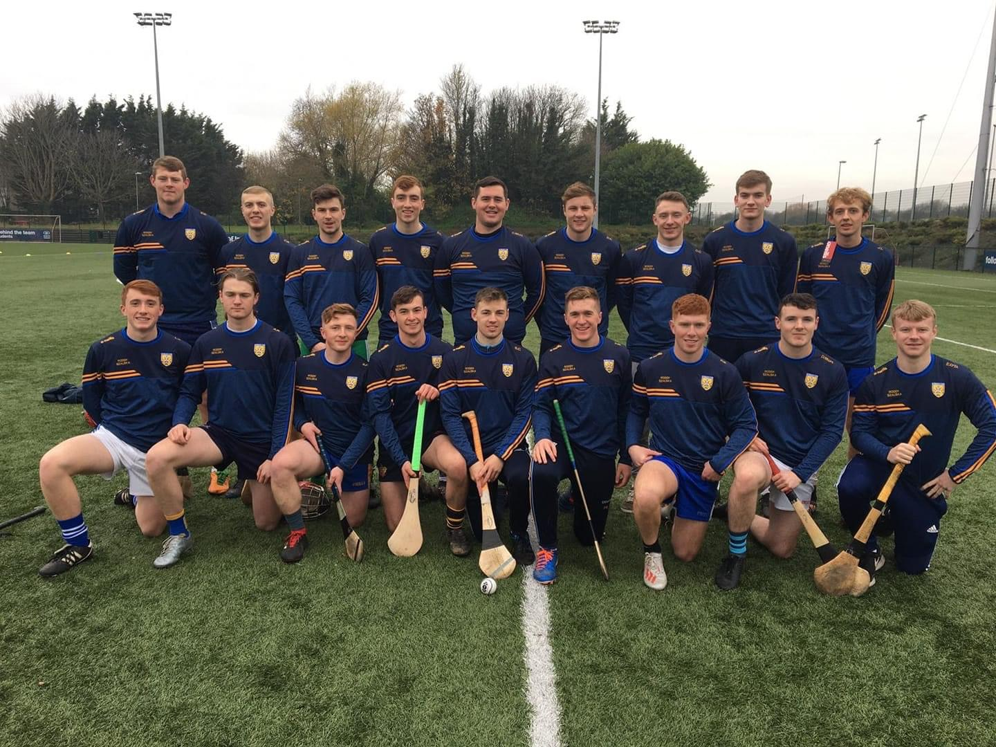 Na Fianna U21 hurling team 2019